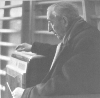 Italian historian Vincenzo Vicenti